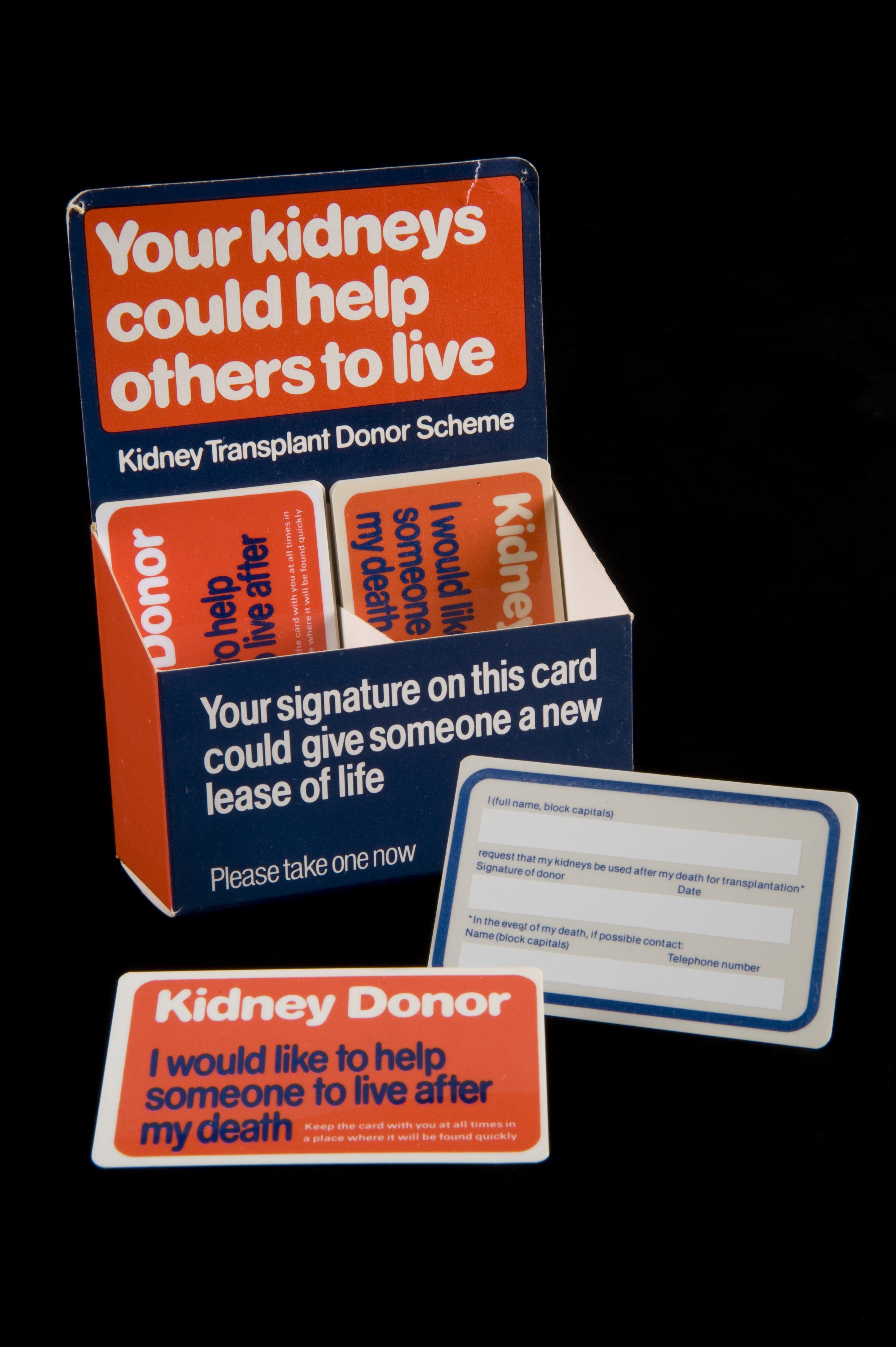 Organ transplants are the best treatment for those with organ failure. Kidney donor cards, like this one, were introduced in the United Kingdom in 1971. There was and still is a shortage of donor organs and supplying the demand relies upon voluntary donations. The cards were made to be carried by donors as evidence that they were willing to donate their kidneys should they, for example, be killed in an accident. In 1981, the kidney donor cards were changed to include other organs such as the heart, liver, cornea and pancreas. The wishes of the 15.1 million donors in the United Kingdom are recorded on the National Health Service (NHS) Organ Donor Register, set up in 1994. There have long been calls to increase the numbers of potential donors by introducing an ‘opt-out’ scheme to replace the ‘opt-in’ system that exists at the moment. maker: Unknown maker Place made: England, United Kingdom Wellcome Images Keywords: Transplants; donor card; transplant